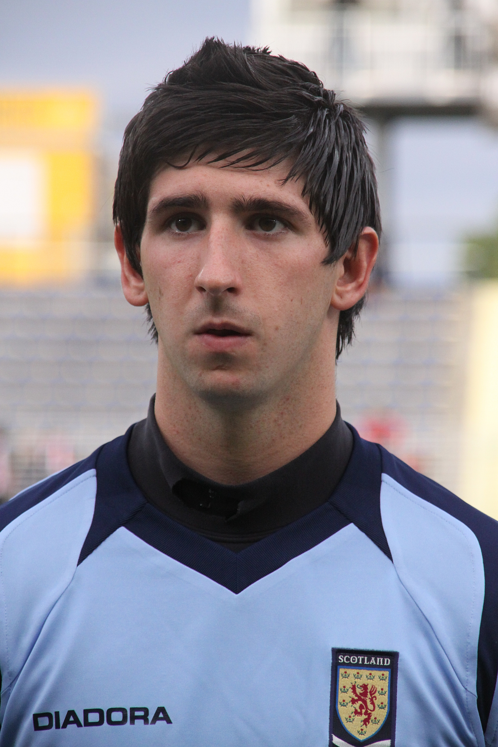 Alan Martin (Leeds United) - Schottische Fußballnationalmannschaft (U-21-Männer) Alan Martin (Leeds United) - Scotland national under-21 football team — (1)